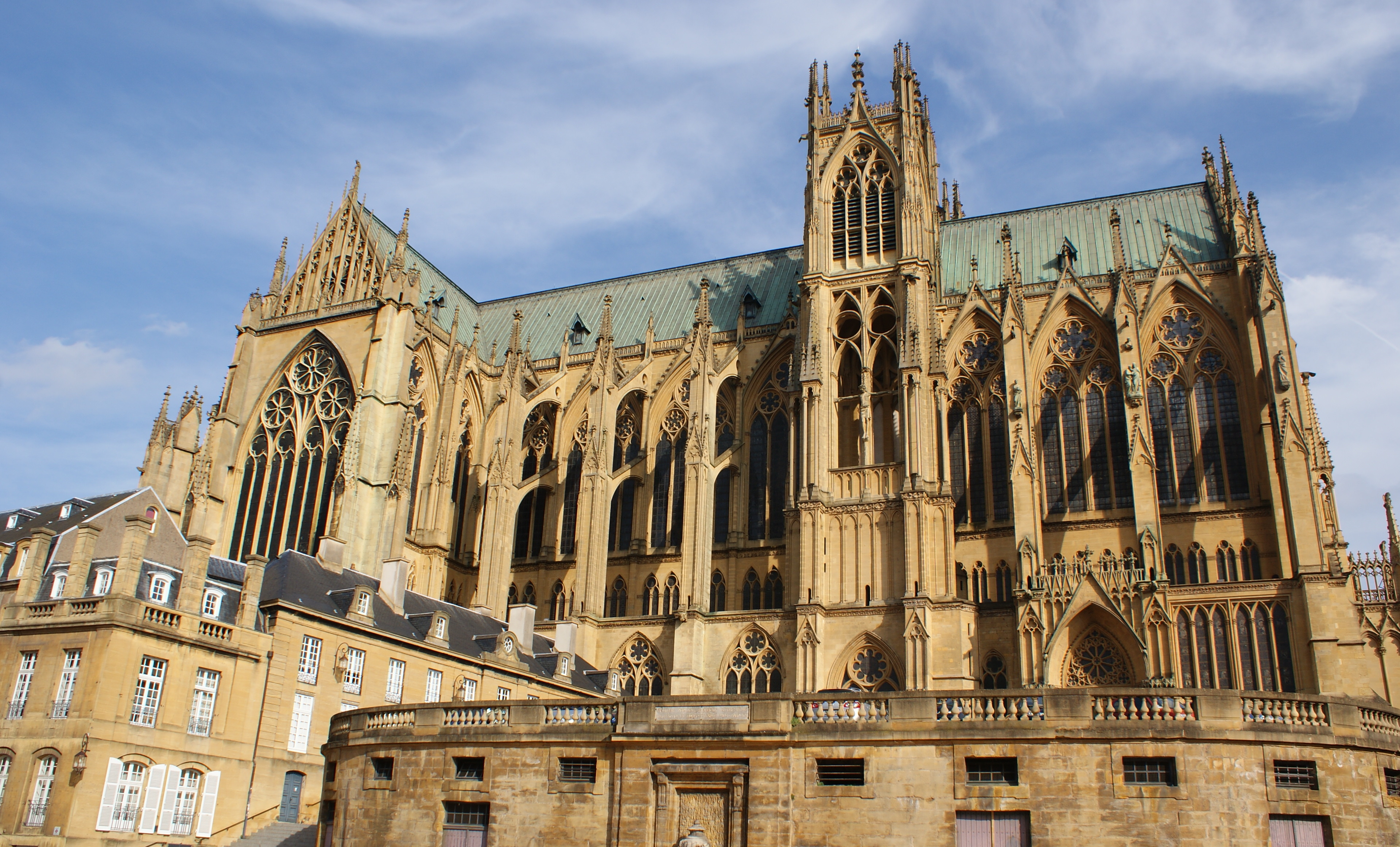 Cathedral of Metz, France, north side